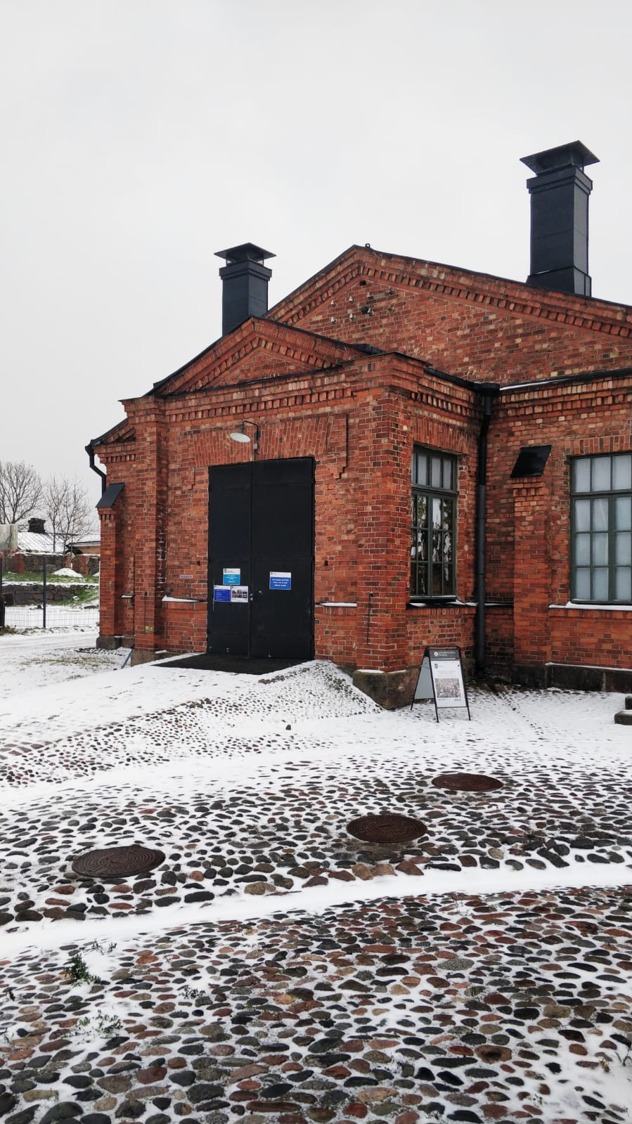 Artillery Manege